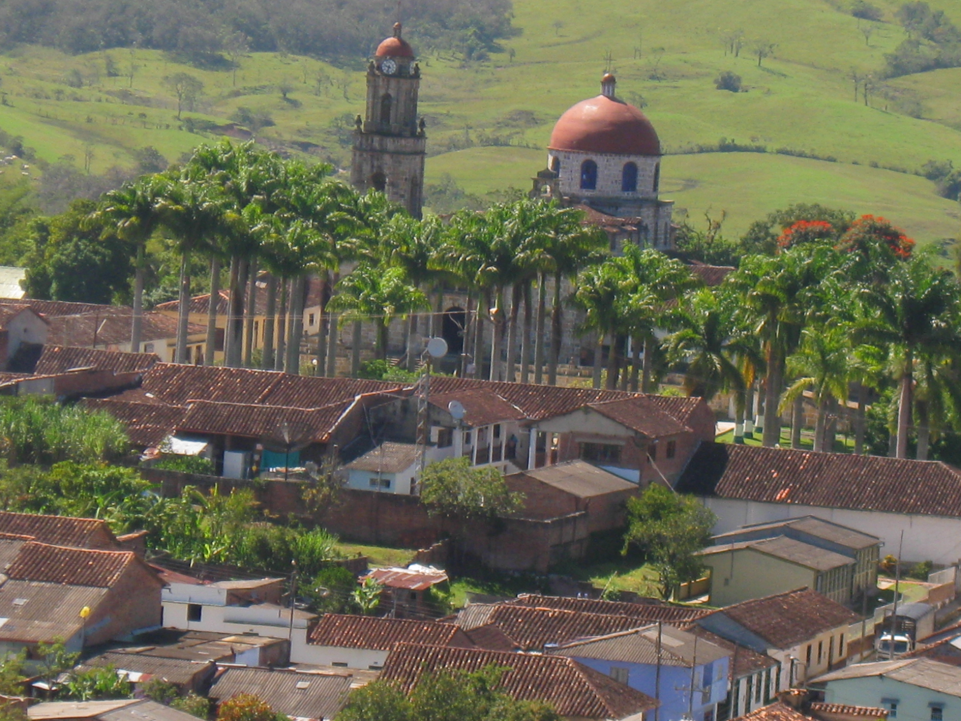 Vista Guadalupe, Santander, Colombia